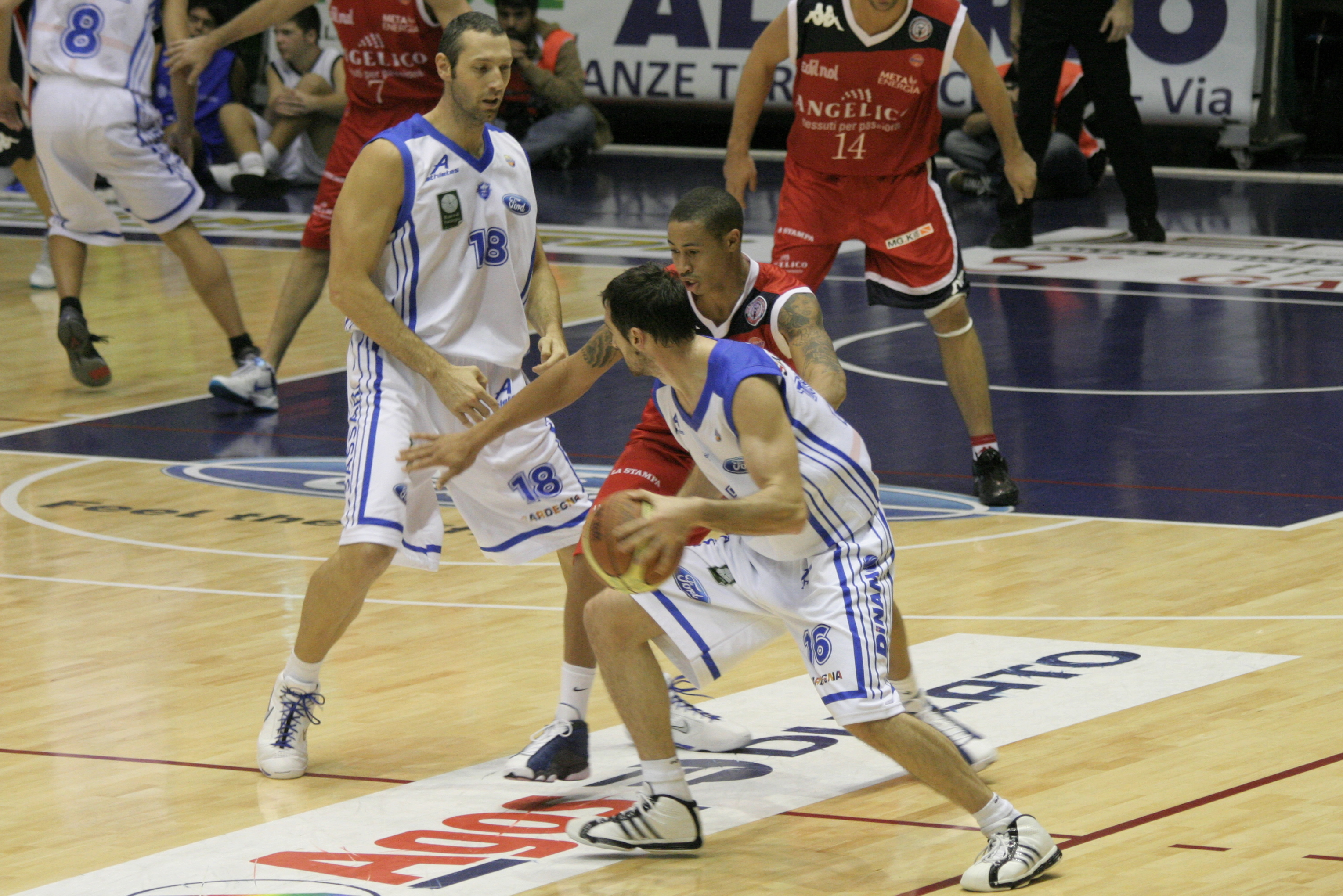 Dinamo Sassari